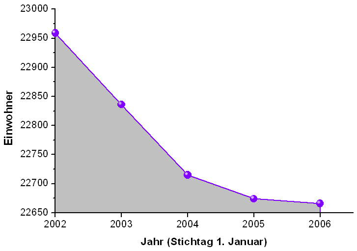 The municipality of Saint-Nicolas' population, province of Liège, Belgium (2002-2006). X-axis: year (data from January 1), y-axis: number of inhabitants. / Bevölkerungsentwicklung der Gemeinde Saint-Nicolas, Provinz Lüttich, Belgien (2002-2006). X-Achse: Jahr (Angaben vom 1. Januar), y-Achse: Anzahl der Einwohner.